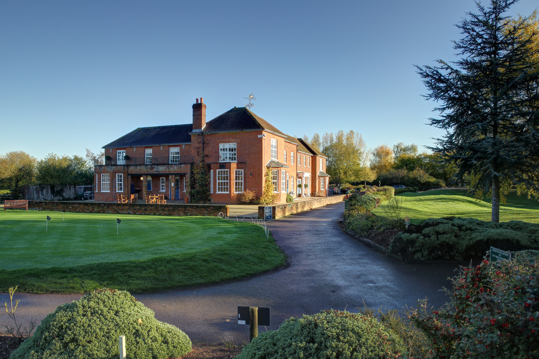 Sandmartins Golf Club